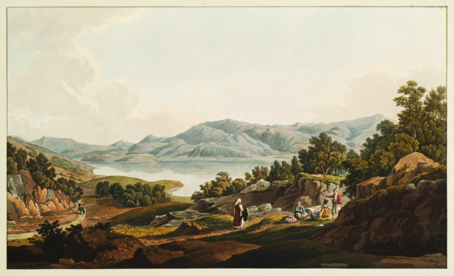 Edward Dodwell. A Classical and Topographical Tour through Greece, during the Years 1801, 1805, and 1806, vol. ΙΙ, London, Rodwell and Martin, 1819.